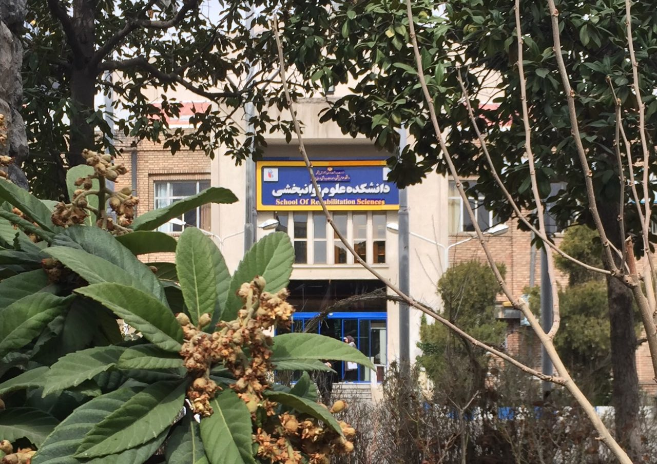 Iran University of Medical Sciences, School of Rehabilitation, Main Building